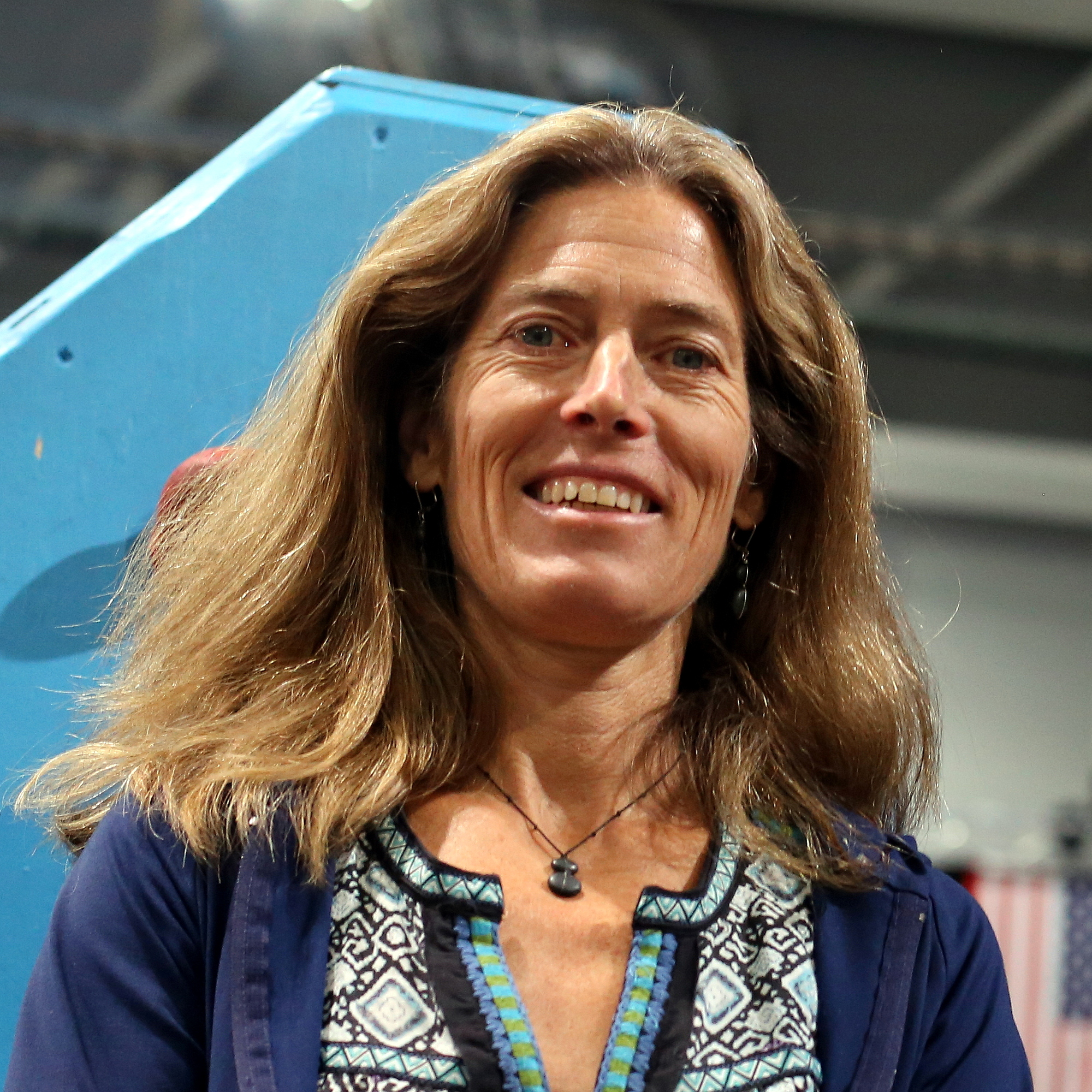 Lynn Hill in Stavanger in conjunction with World cup in climbing in Stavanger 2015. Events by brv.no. Tighter crop, levels adjusted.